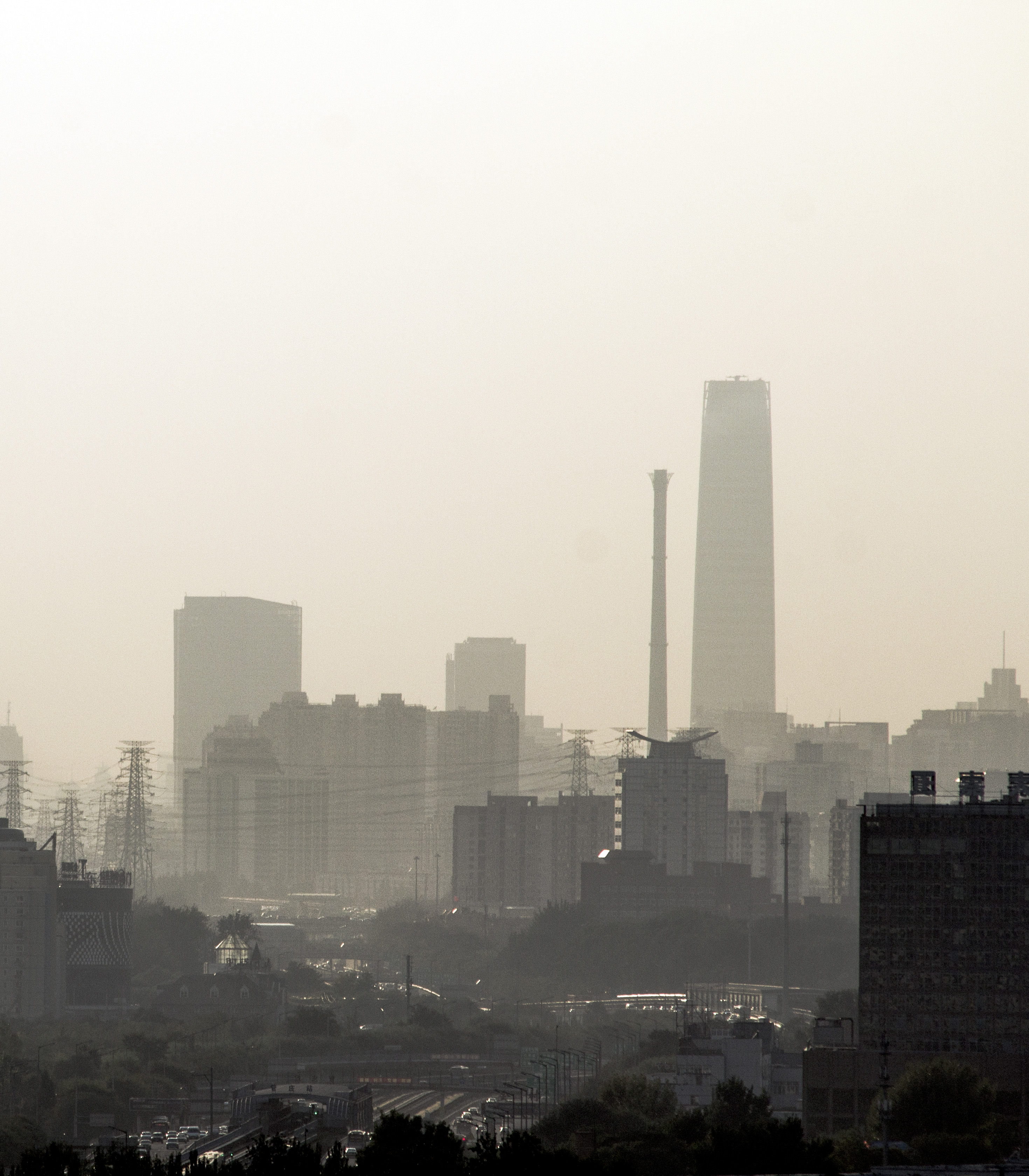 Guanzhuang and other stations view from Tongzhou